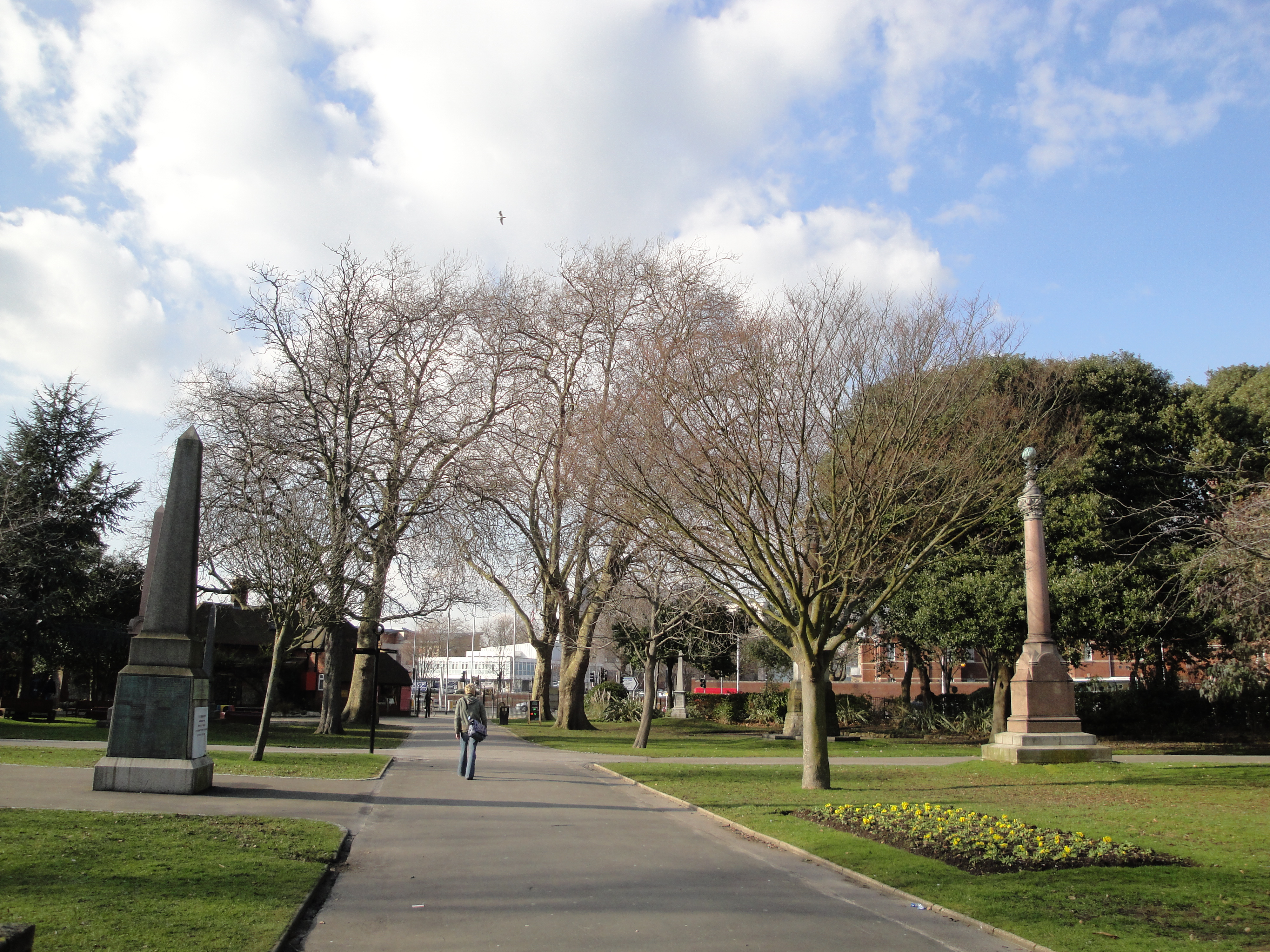 Memorials towards the eastern end of Victoria Park in Portsmouth, Hampshire